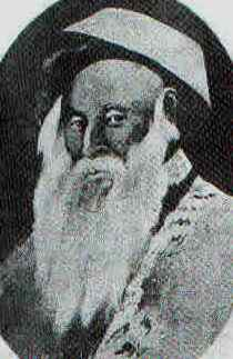 Jacob Saul Elyashar